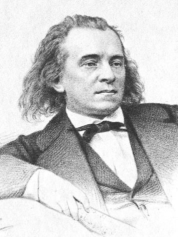 Alexander Serov, Russian composer.